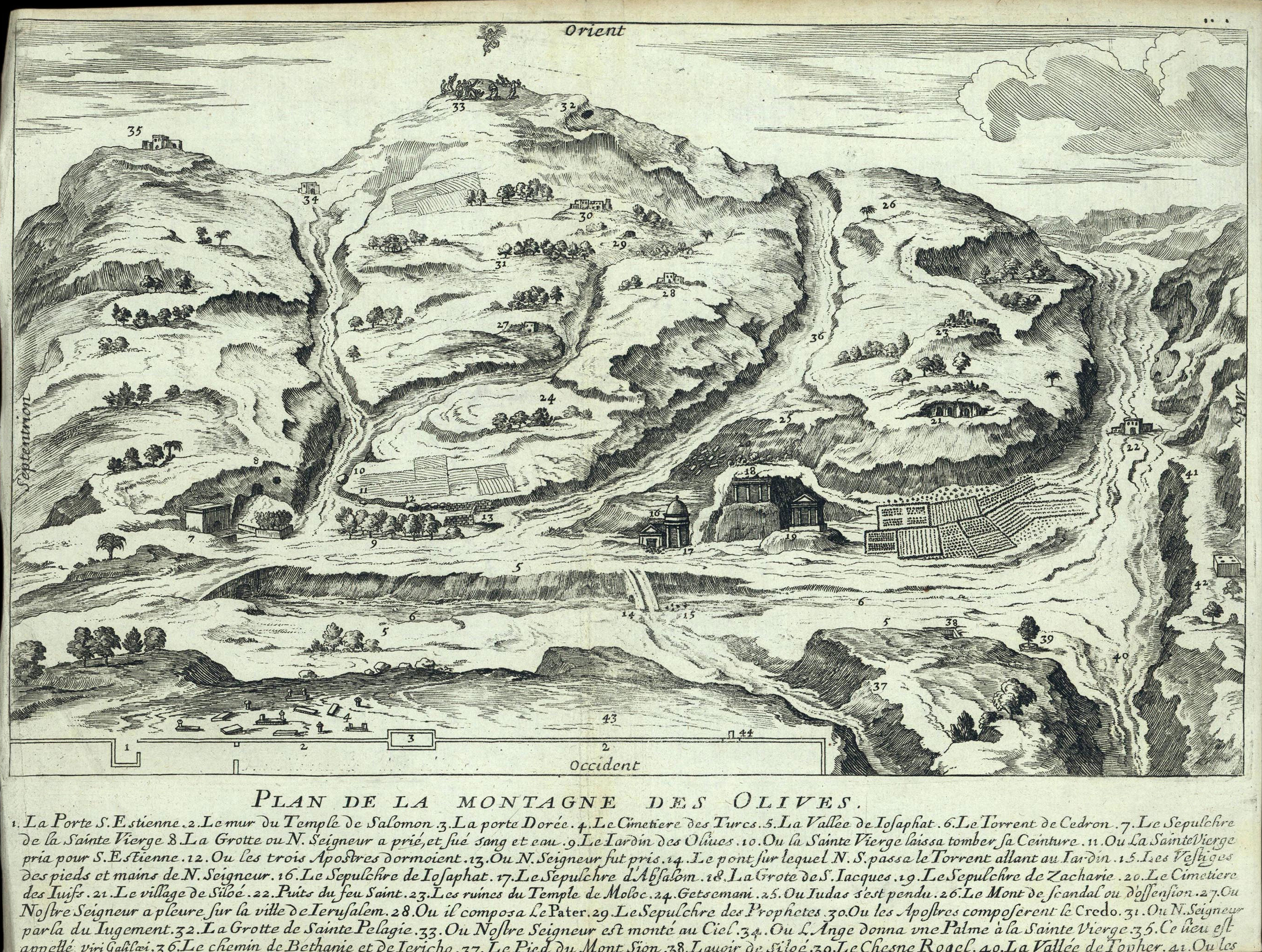 Mount of Olives by Doubdan, showing the Ascension on the top. Paris, 1666.